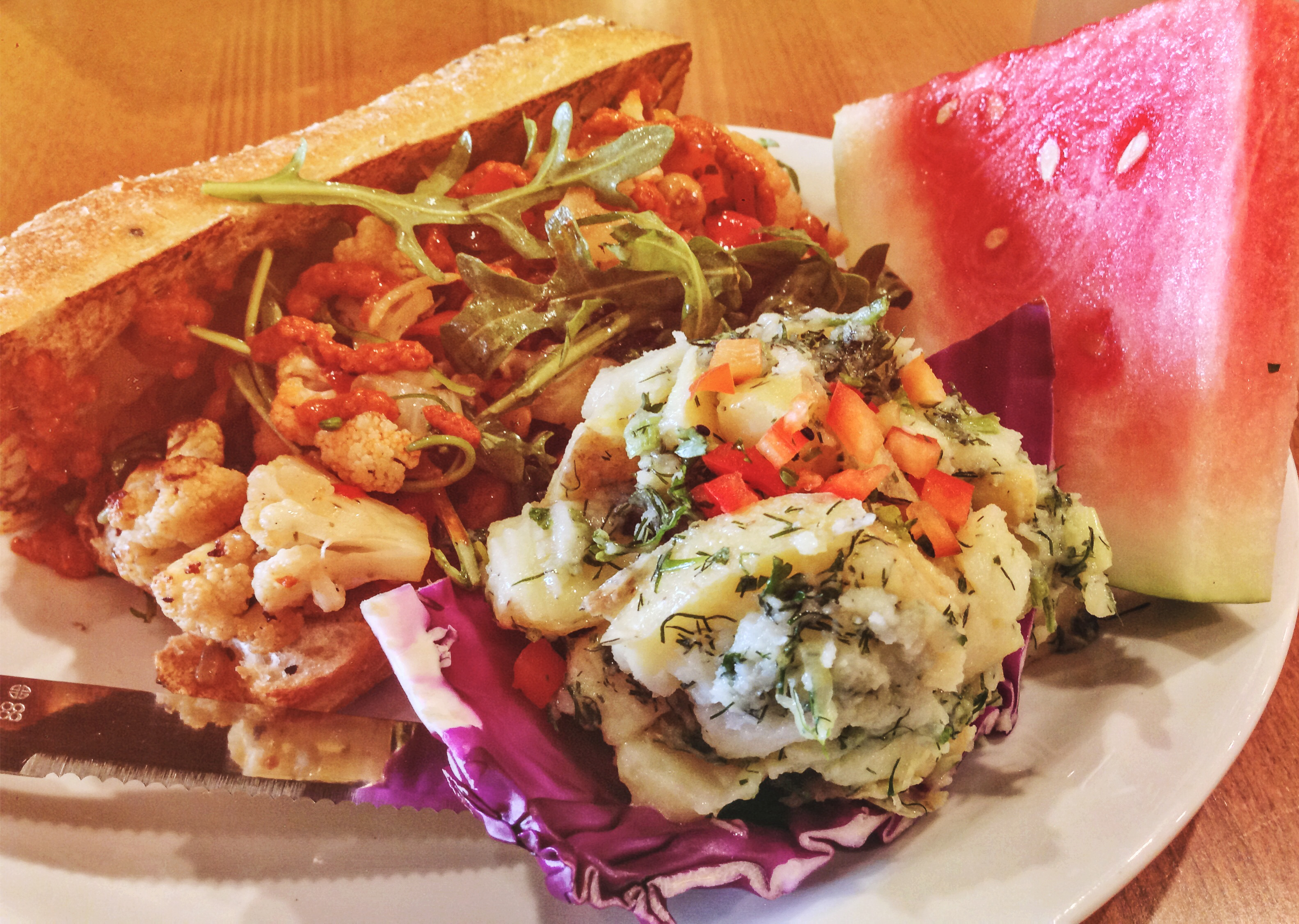 Cauliflower Power - Native Foods Café, Chicago